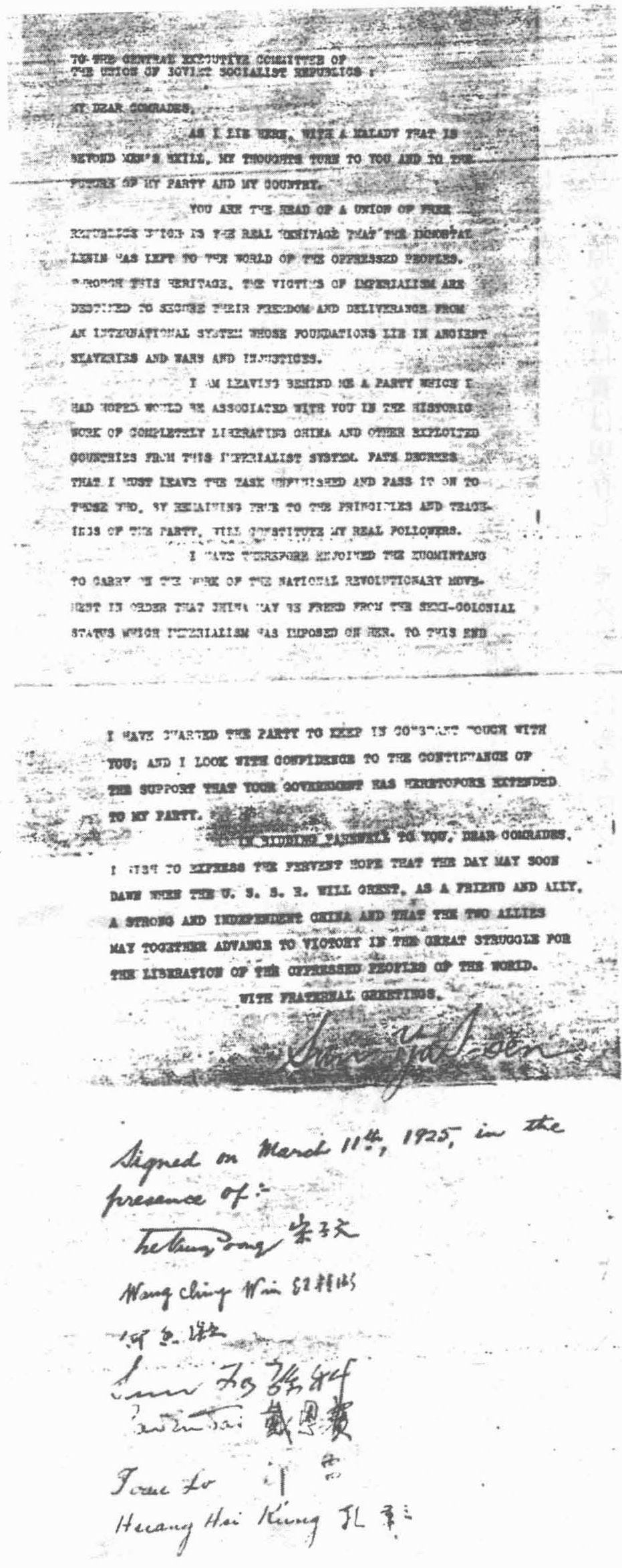 The original English typescript of farewell letter to Soviet Russia, found in the Russian State Archives for Social and Political History (RGASPI) in Moscow.